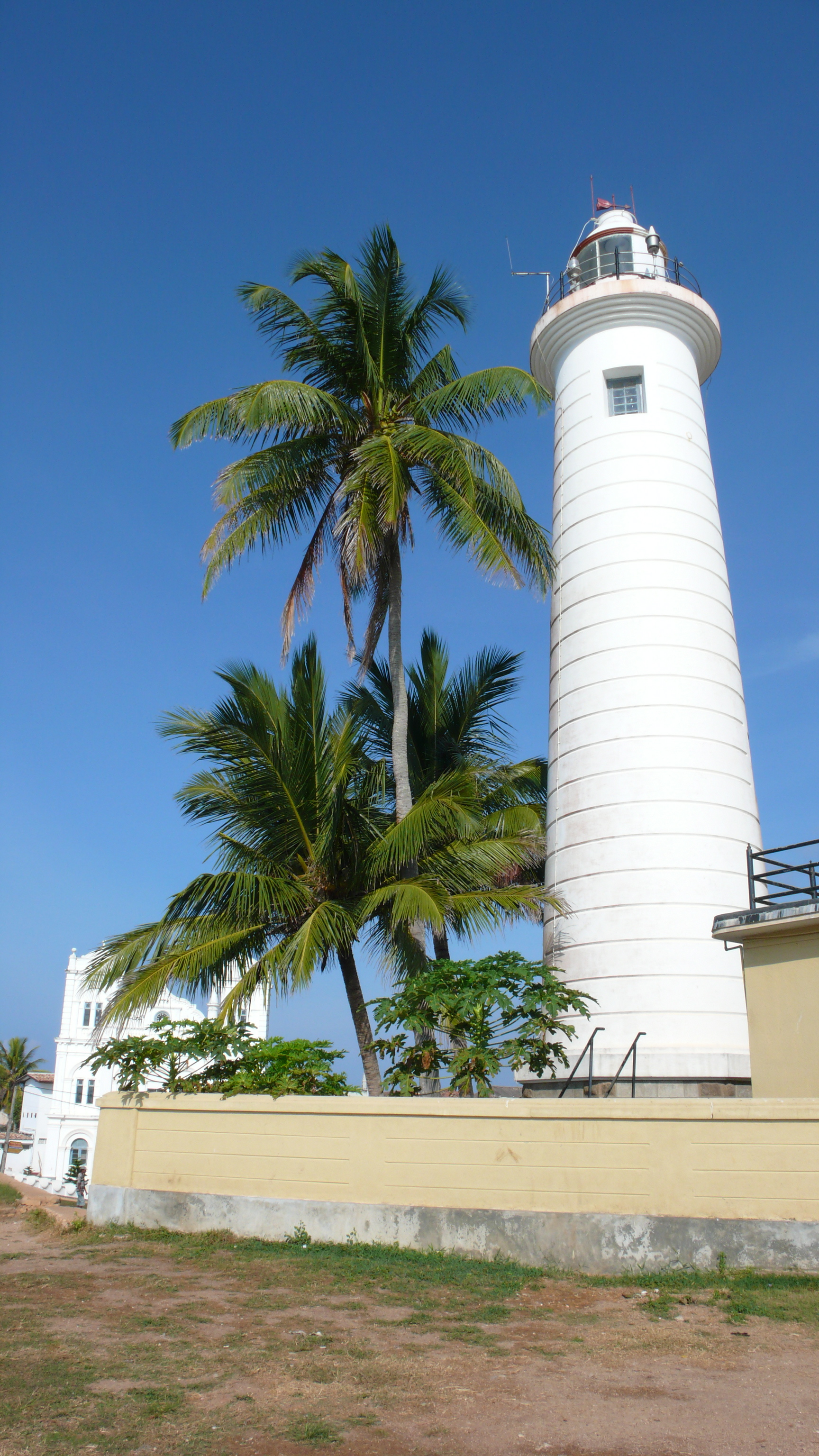 The light house in Galle, Sri Lanka, located within the ancient Galle fort.